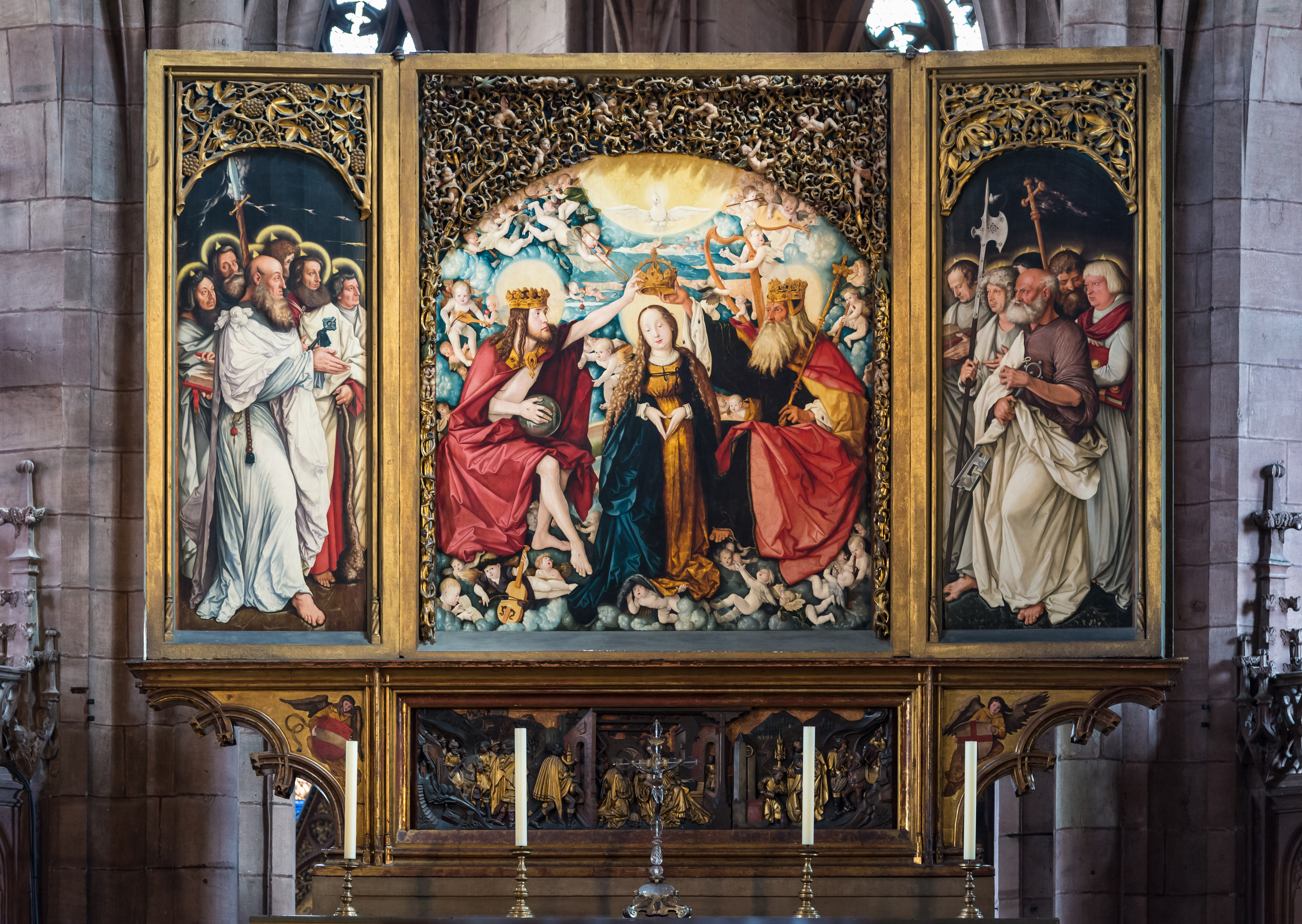 High altar of Freiburg Minster, Freiburg im Breisgau, Baden-Württemberg, Germany. Hans Baldung, 1512–16.